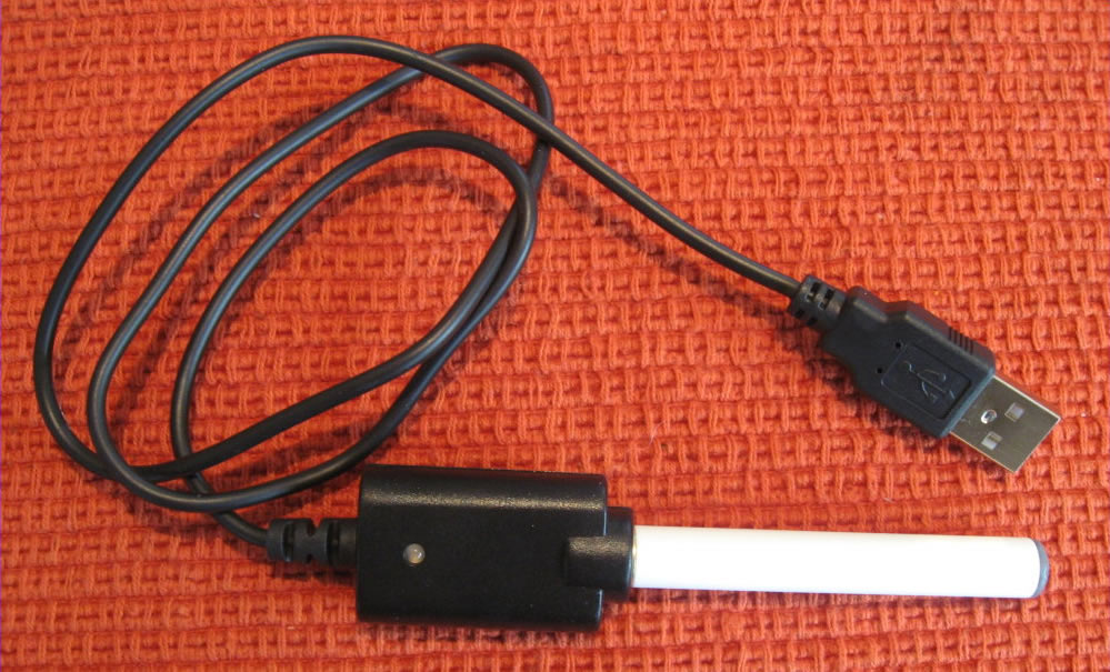 Electronic cigarette charger